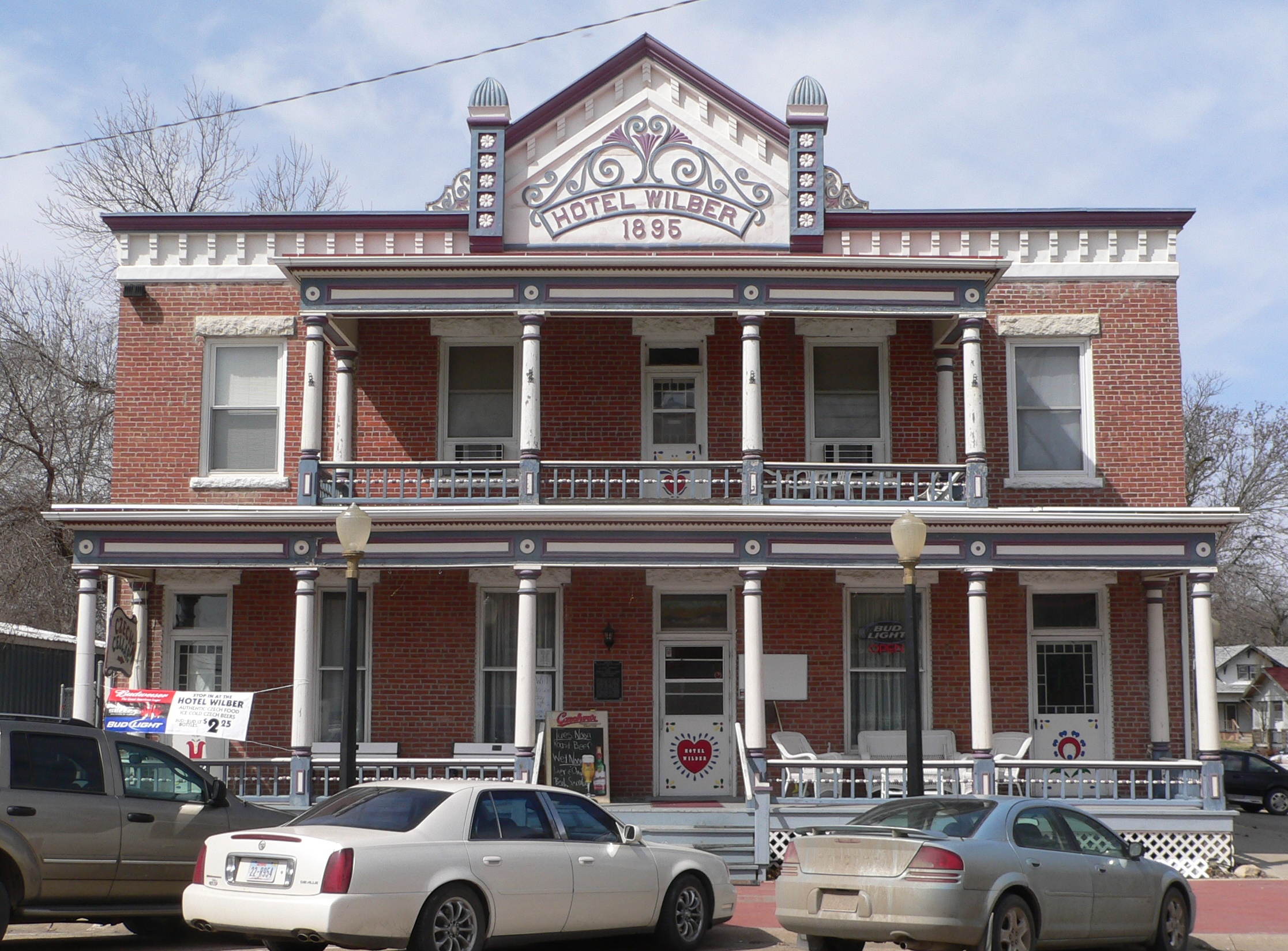 Hotel Wilber in Wilber, Nebraska; seen from the east. The 1895 building is listed in the National Register of Historic Places. It currently serves as a bed-and-breakfast, and as a restaurant and bar.